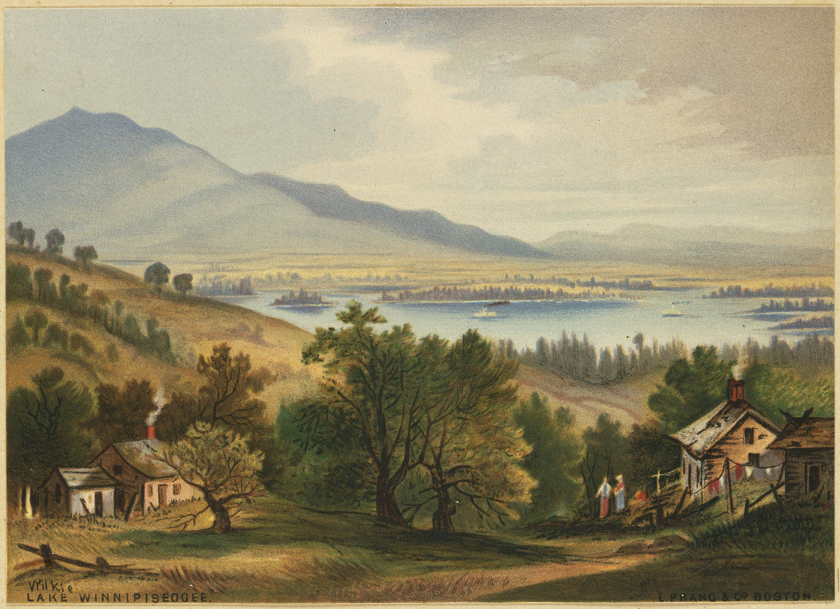 File name: 07_11_000039 Title: Lake Winnipiseogee Creator/Contributor: Wilkie, Robert D., 1828-1903 (artist); L. Prang & Co. (publisher) Date issued: 1861-1897 (approximate) Physical description note: Proof print Genre: Chromolithographs; Proofs; Landscape prints Location: Boston Public Library, Print Department Rights: No known restrictions Flickr data on 2011-08-08: Camera: Sinar AG Sinarback 54 FW, Sinar m License: CC BY 2.0 User: Boston Public Library BPL